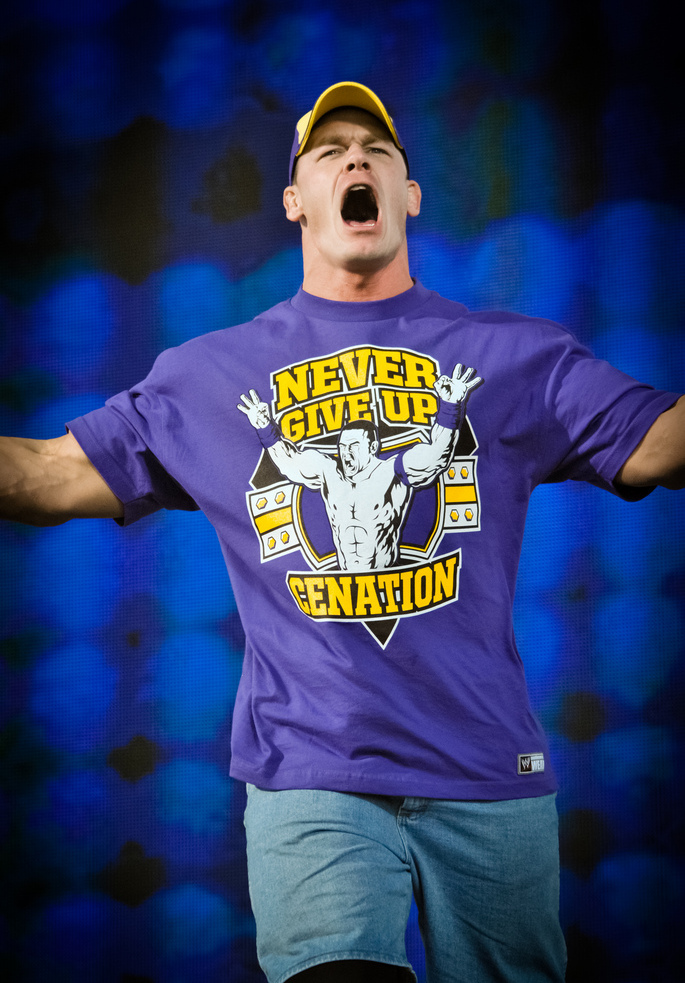 John Cena at WWE's Tribute to the Troops event on December 11, 2010 in Fort Hood, Texas.